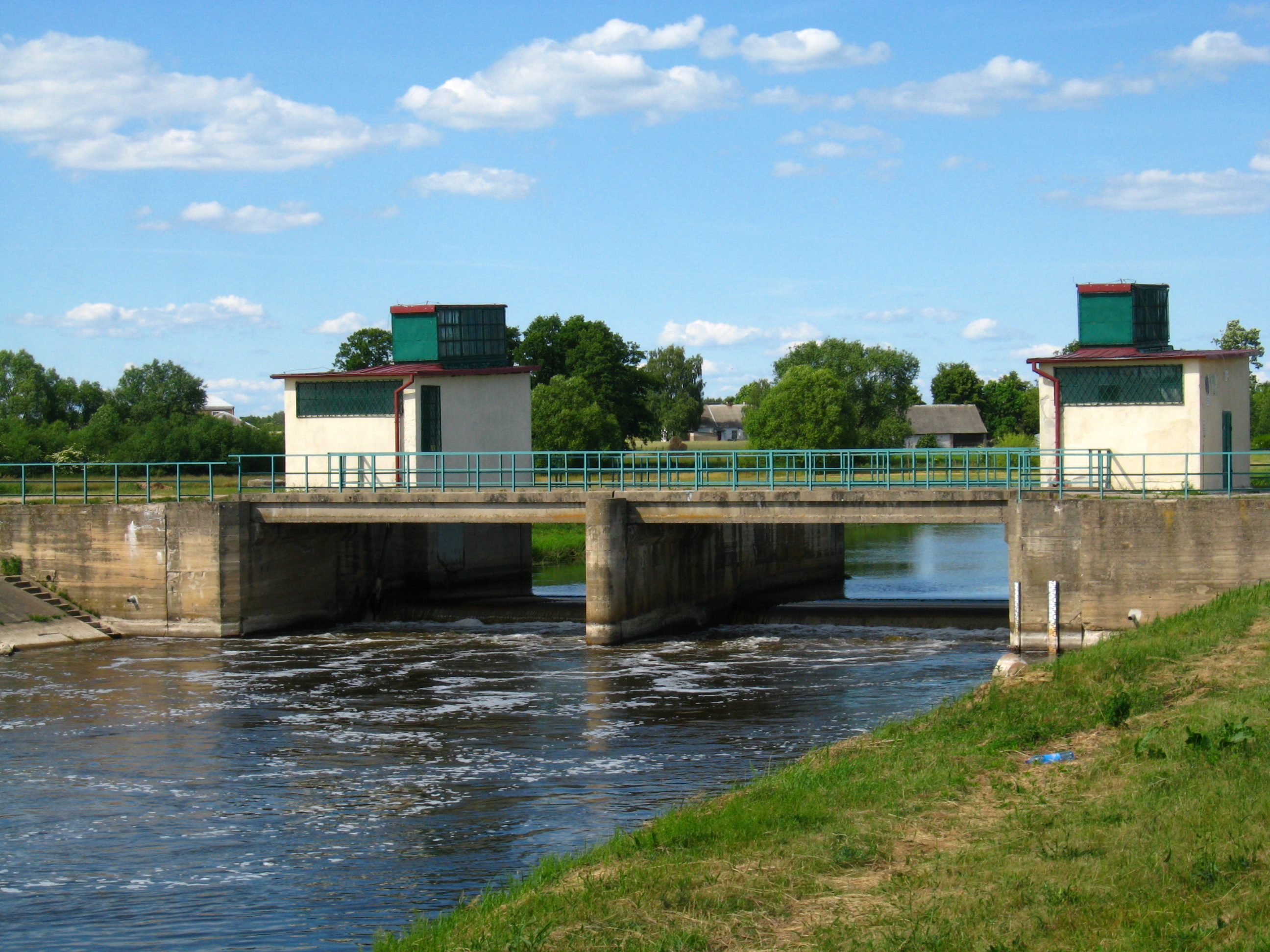 Weir on Narew river at Góra village (gm. Krypno)